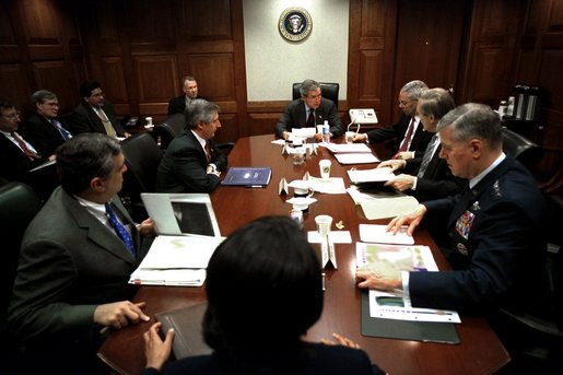 On Friday morning, March 21, 2003, President George W. Bush meets with his war council in the Situation Room of the White House. Present at the table are, from foreground, National Security Advisor Condoleezza Rice, CIA Director George Tenet, Chief of Staff Andy Card, President George Bush, Secretary of State Colin Powell, Secretary of Defense Donald Rumsfeld and Chairman of the Joint Chiefs of Staff Richard B. Myers. White House photo by Eric Draper.